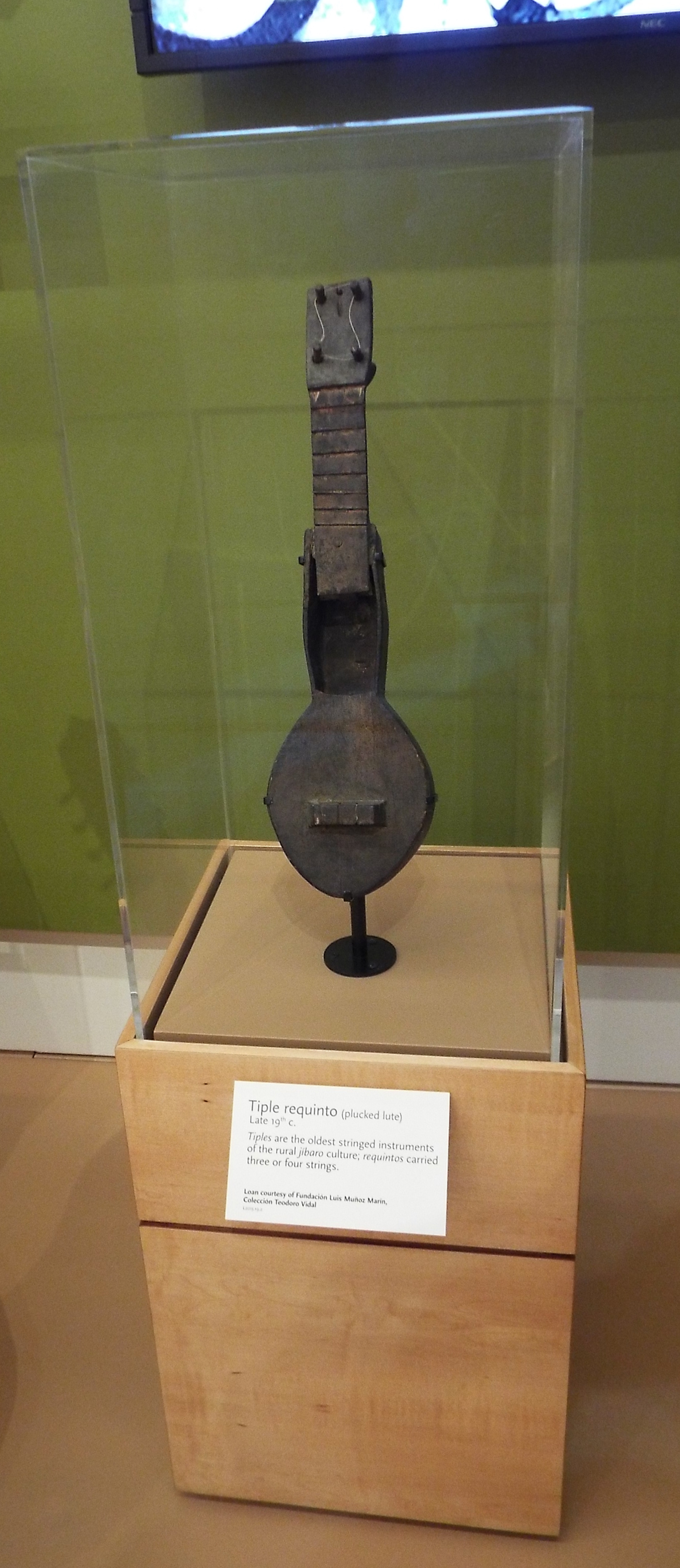 A Tiple Requinto (1880) from Puerto Rico on exhibit in the Musical Instrument Museum in Phoenix.